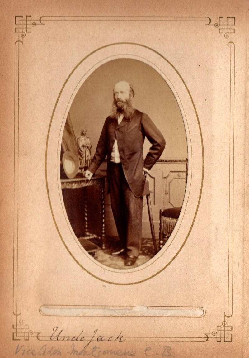 Taken from a personal album belonging to Sir John Anthony Cecil Tilley, son of Sir John Tilley and Susannah Anderson Montgomerie who was the daughter of William Eglinton Montgomerie and sister of John Eglinton Montgomerie.